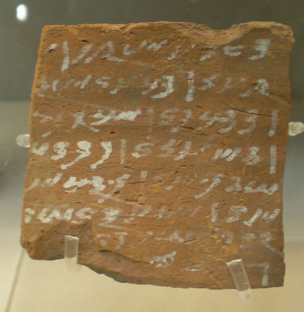 Ostracon with Meroitic, kursive text